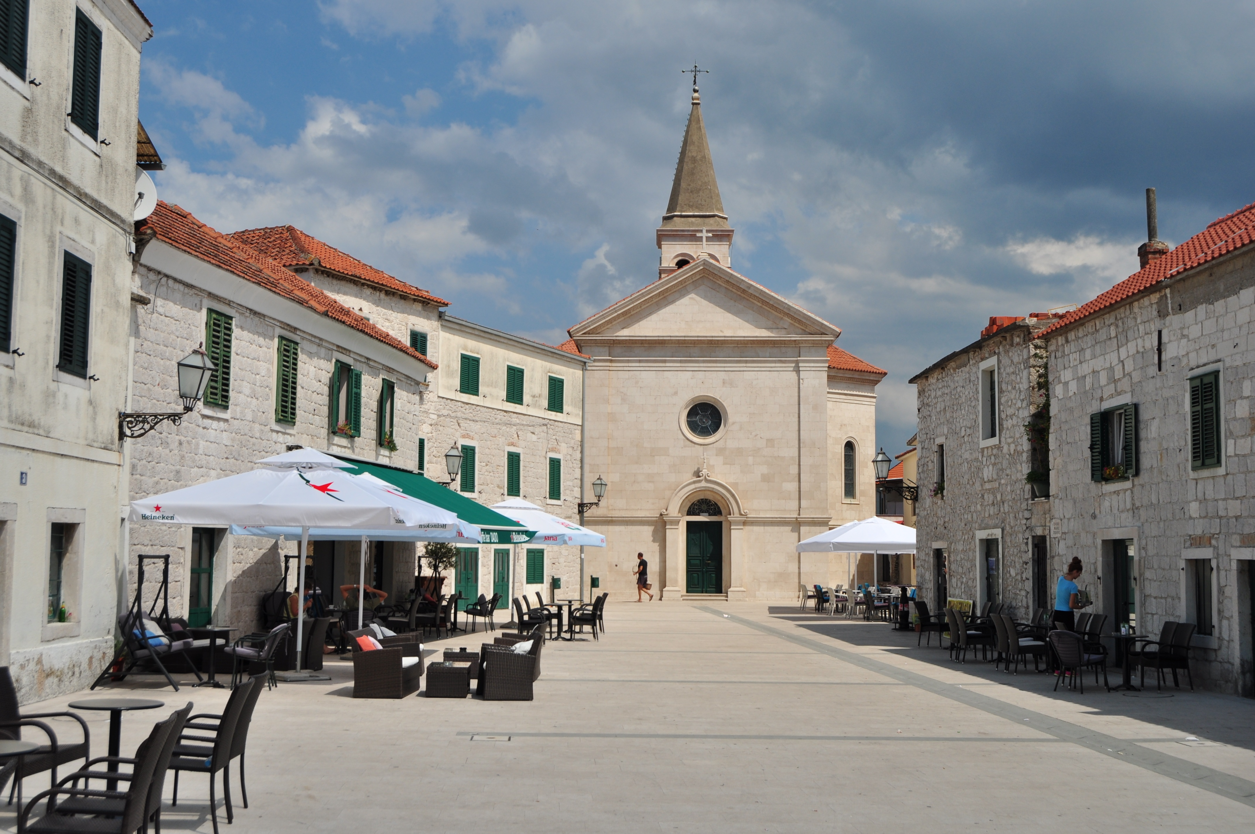 King Tomislav square and Saint Stephen's church, Croatia.